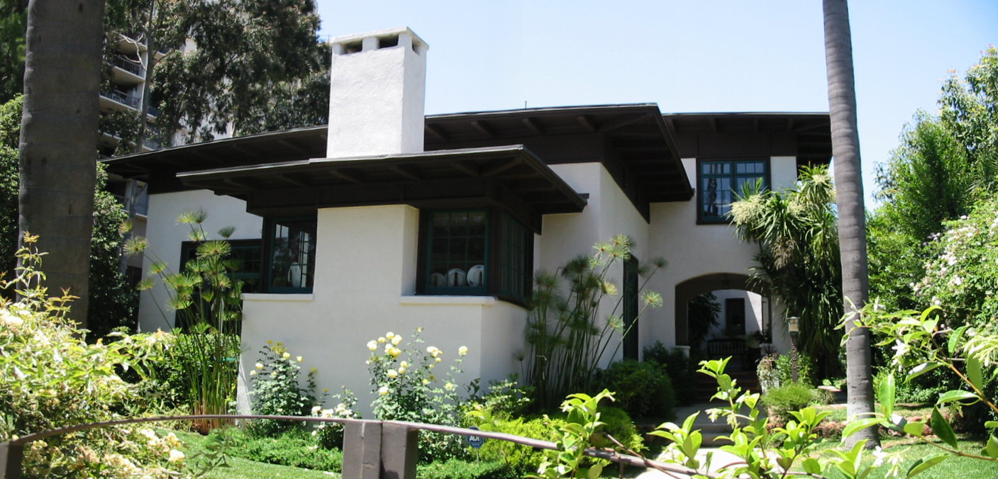 Composite image stitched together from two photographs of an Irving Gill-designed house near several others in San Diego including the Marston House.